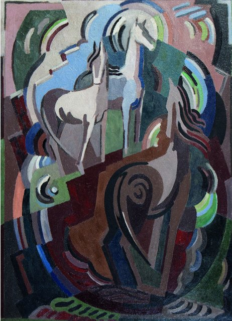 Achill Horses by Mainie (Mary Harriet) Jellett, 1938, Oil on canvas, 91.5 x 66 cm.